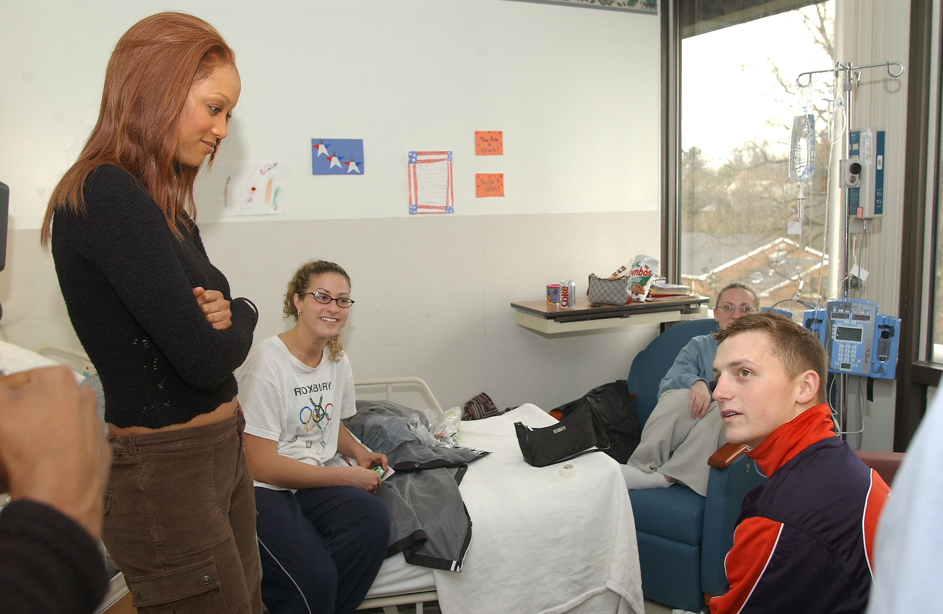 Tyra Banks (left) visits with Army Spc. Matthew Paige (right), a patient at Walter Reed Army Medical Center, Washington, D.C., on Dec. 19, 2003. Banks, whose brother is Air Force 1st Lt. Devin Banks, a contracting officer stationed at Bolling Air Force Base, considers the military a "personal family thing" and wanted to lift injured service members' spirits.